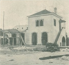 Construction of Vidigal train station, part of the Vendas Novas railway, in Portugal. This image was published on the Ilustração Portuguesa magazine No. 3, of the 23rd November 1903, scanned by the Hemeroteca Municipal de Lisboa.